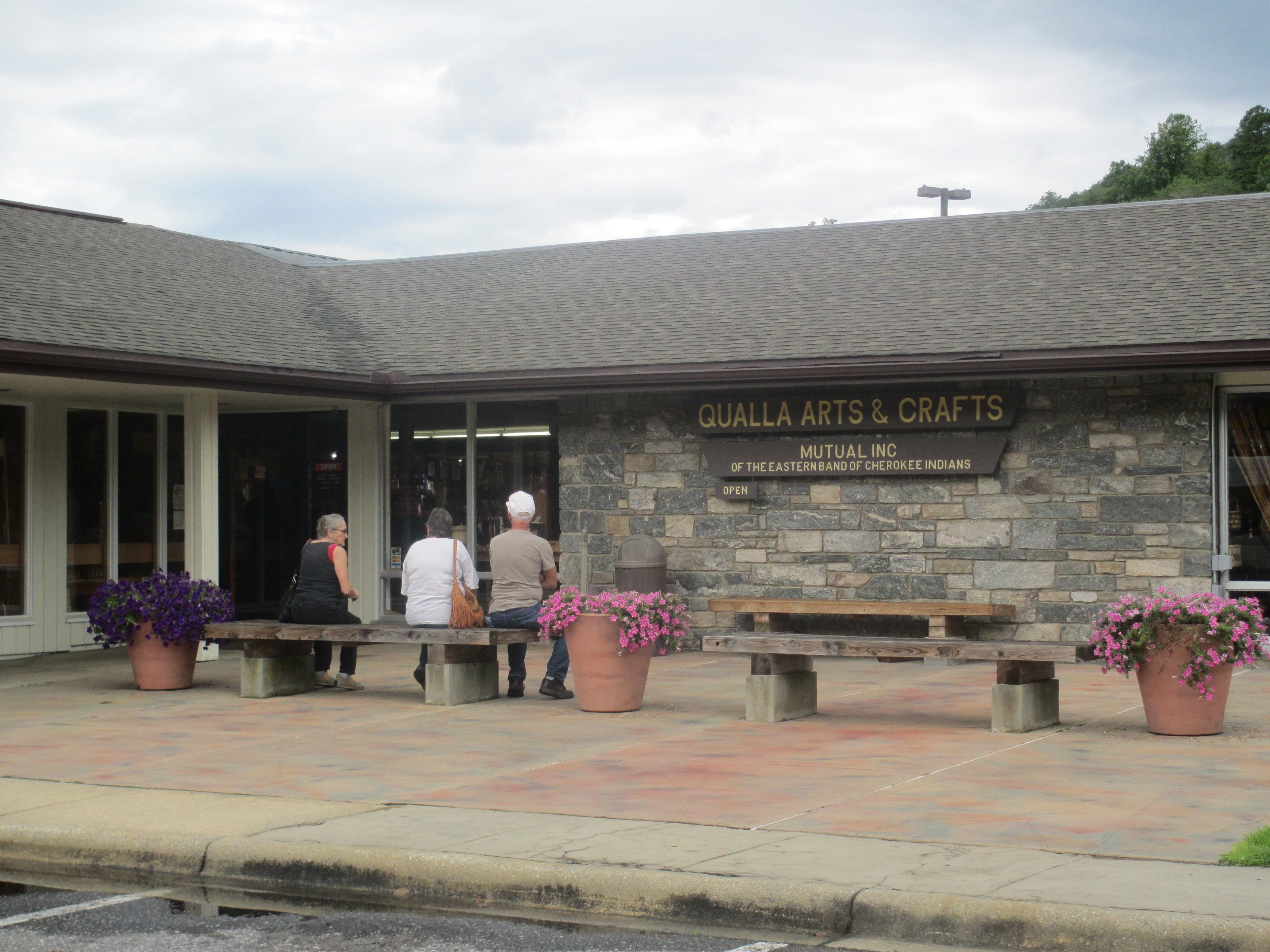 I took photo of Qualla Arts and Crafts Center in Cherokee, NC, with Canon camera.